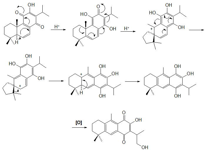 Proposed biosynthesis for aegyptinone B according with Sabri